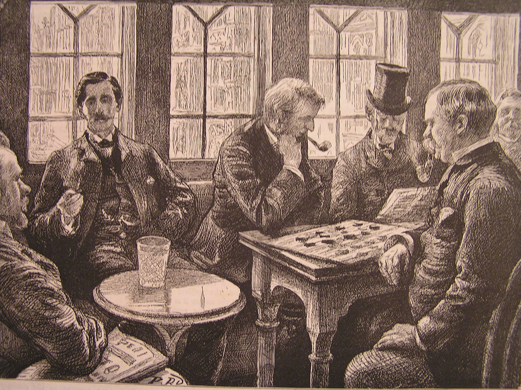 Checkers_club